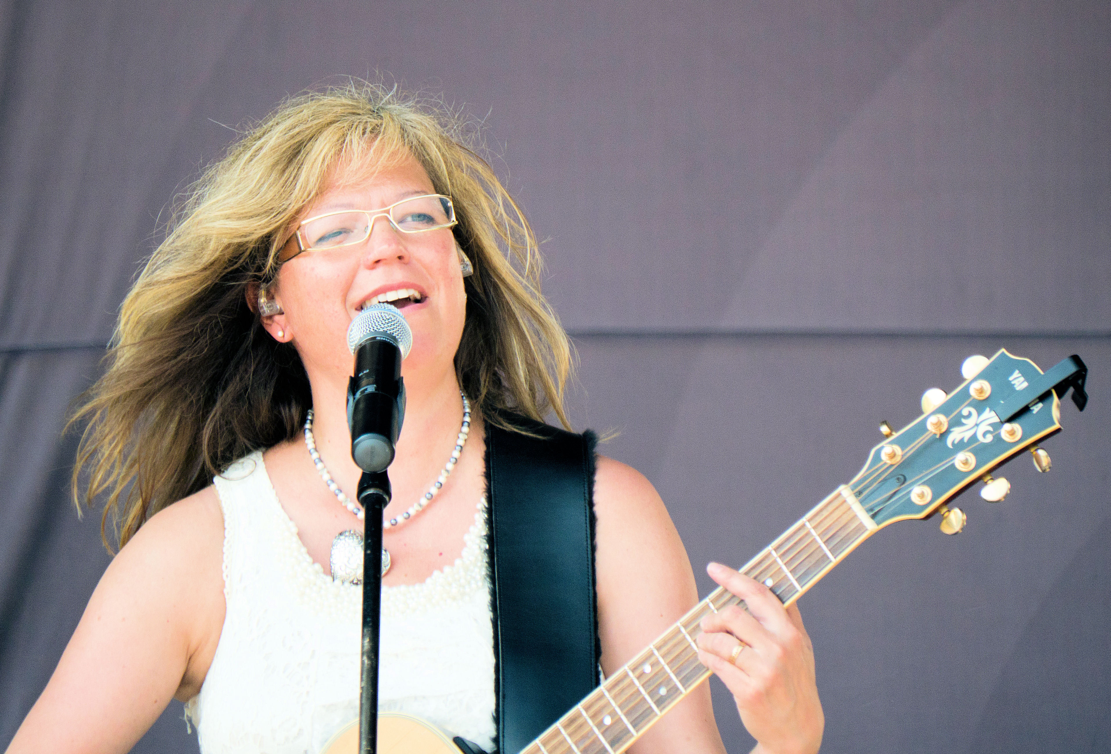 Susann Sonntag